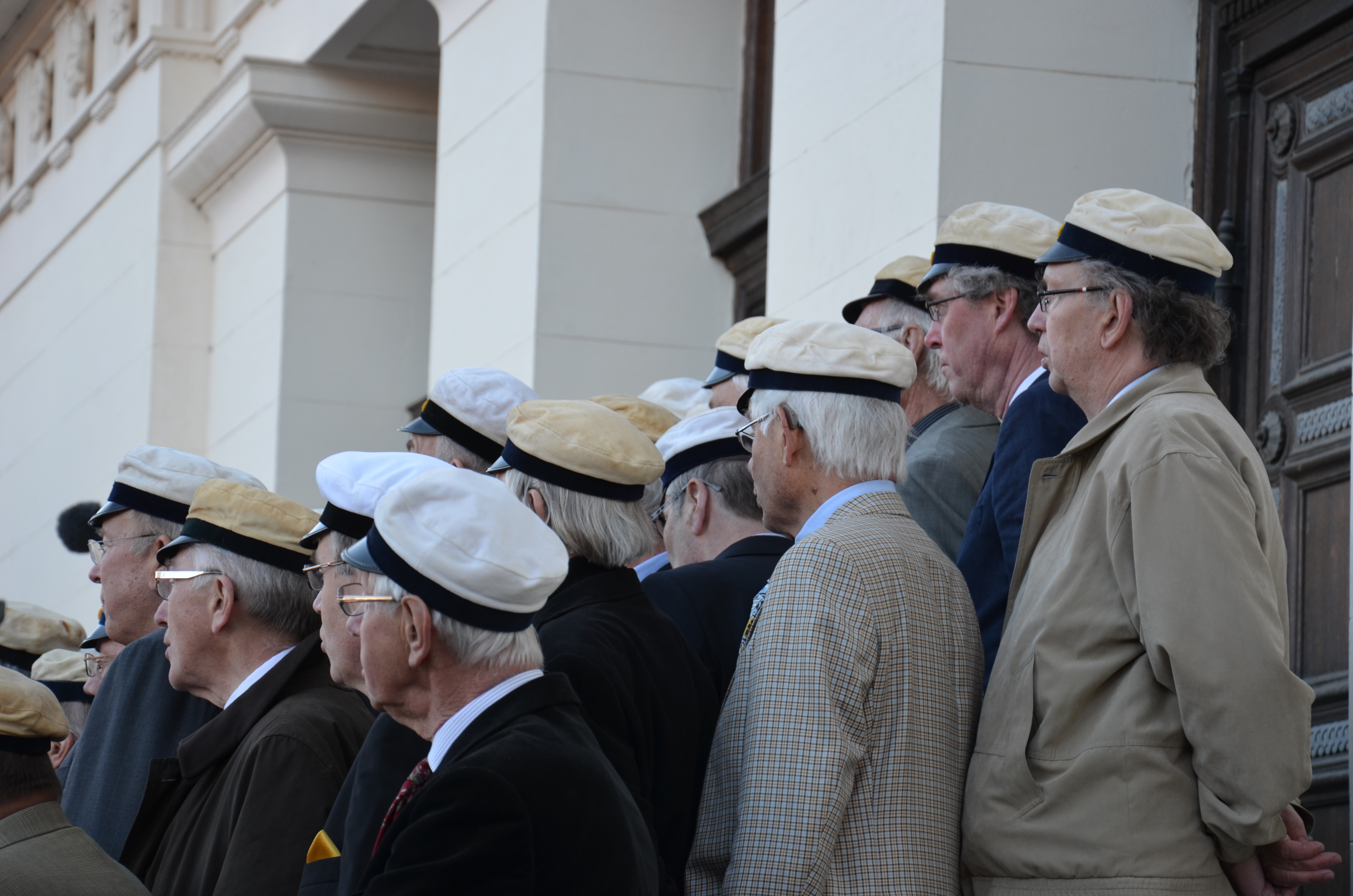 Part of the choir of Lunds studentsångförening with veteran members, during the "Lunds studentsångare hälsar våren" concert in Lund, May 1, 2012